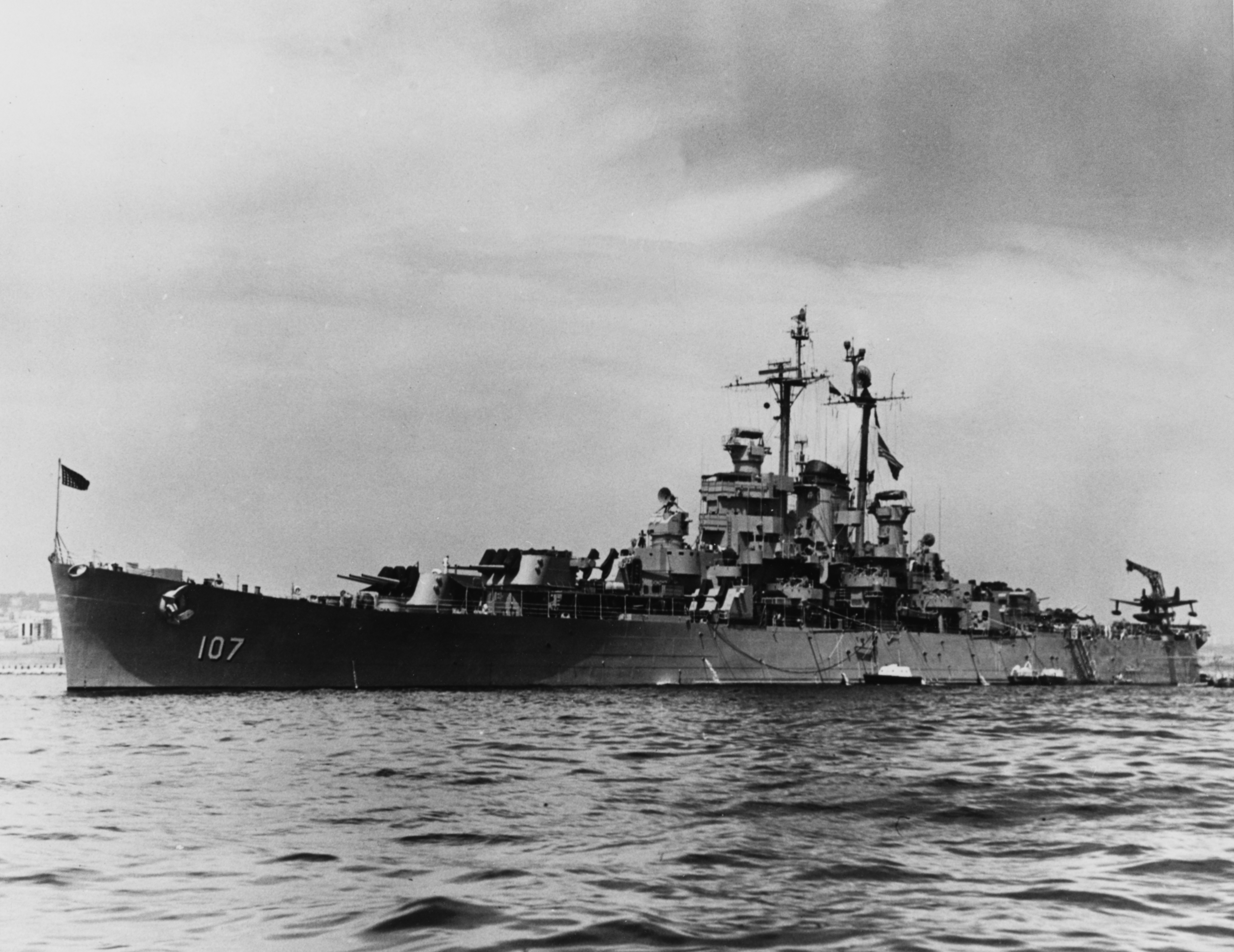 The U.S. Navy light cruiser USS Huntington (CL-107) at Naples, Italy, circa 30 July - 11 August 1948. She was then commanded by Captain Arleigh A. Burke, USN.